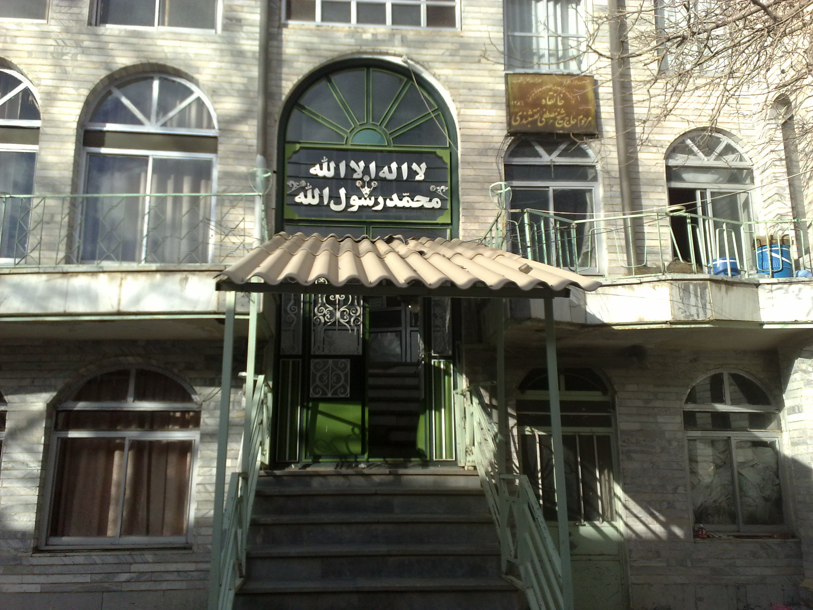 خانقاه نقشبندی در مسجد خانقاه سقز